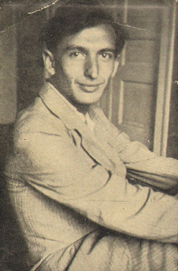 Photograph of Jovan Popović (1905-1952), Serbian writer and poet. Srpski (latinica): Fotografija Jovana Popovića (1905-1952), književnika i pesnika.